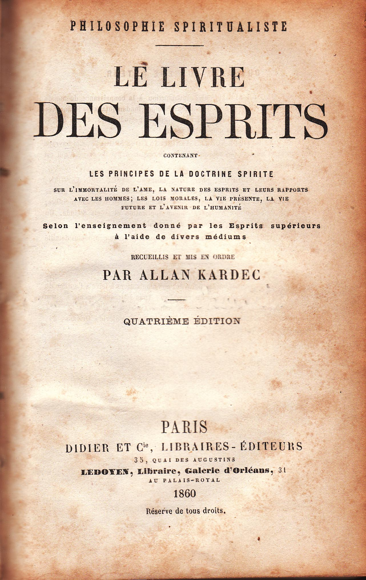 Page de garde du Livre des Esprits, édition de 1860.